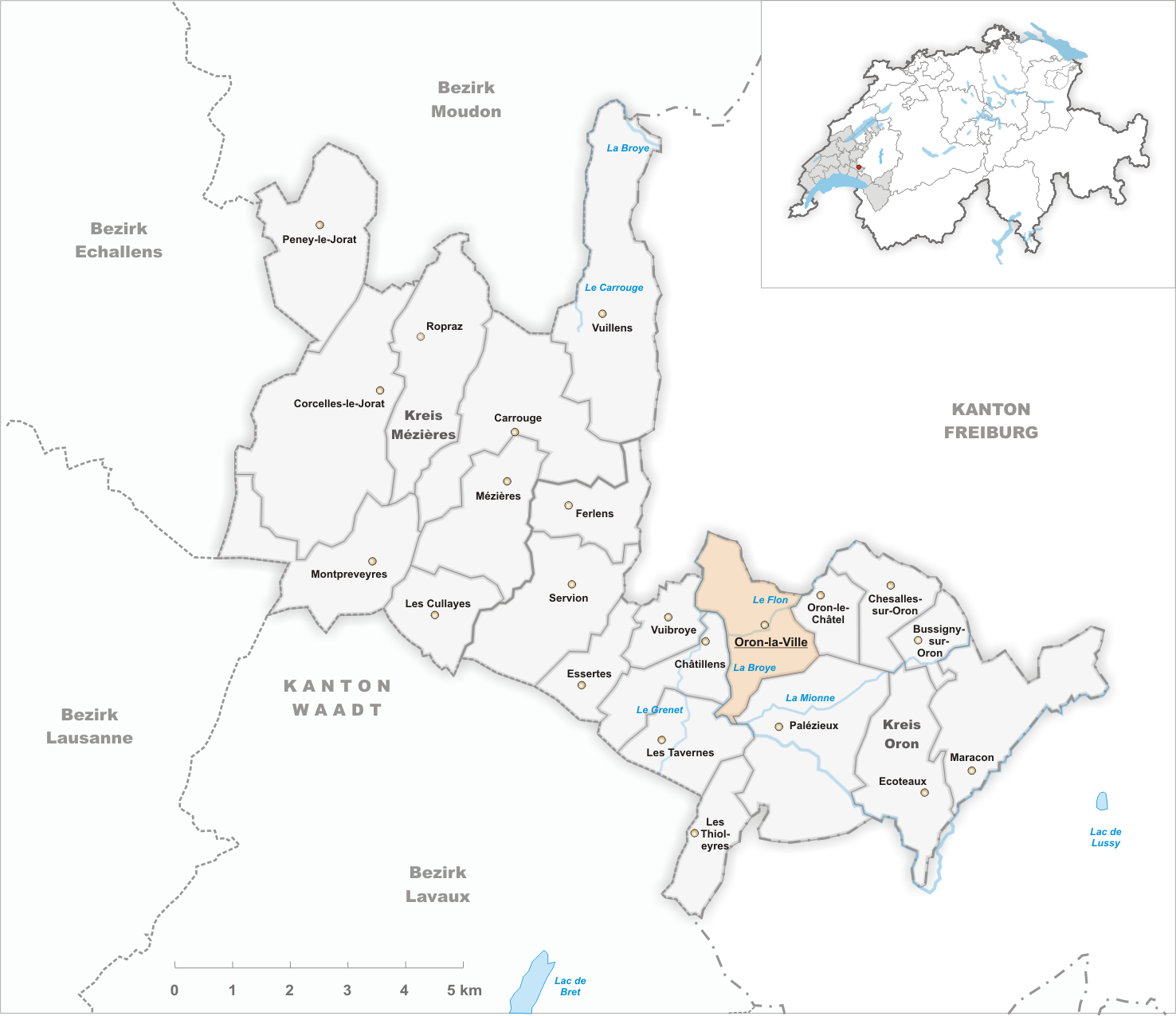 Municipality Oron-la-Ville